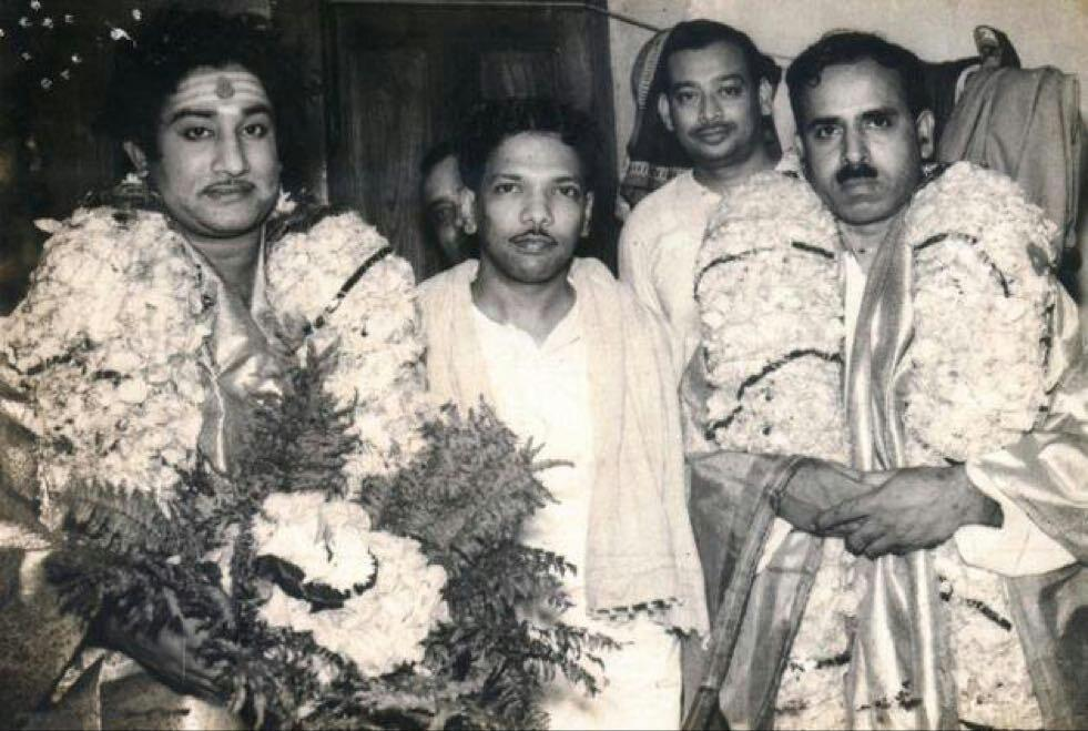 Sivaji Kalingar Sakthi Krishnasamy (in his 100th day film function)